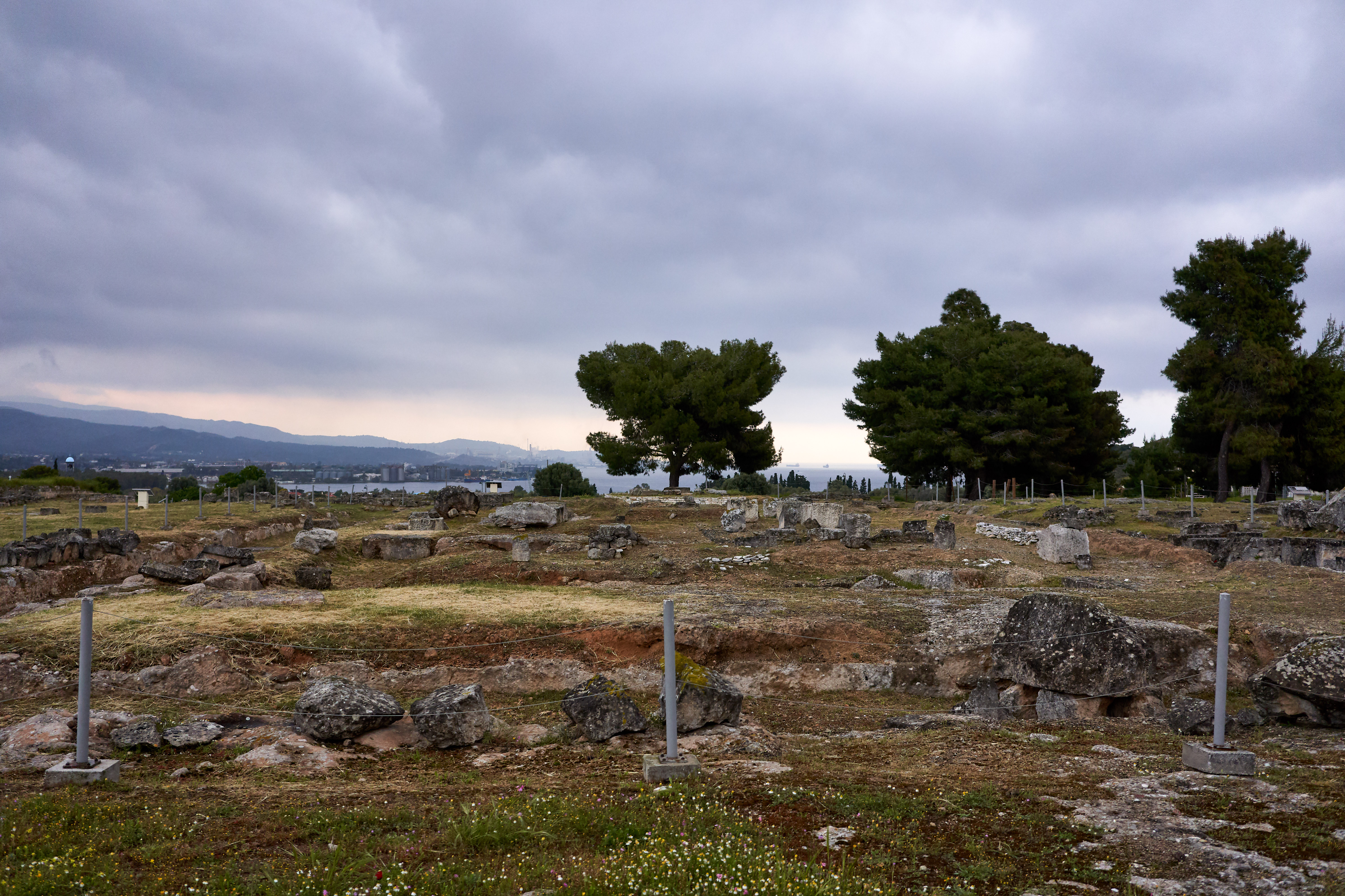 The remains of the Temple of Poseidon at Isthmia. In the background the entrance to the Isthmus of Corinth (left to centre) and the Saronic Gulf (centre to right). Corinthia, Greece.